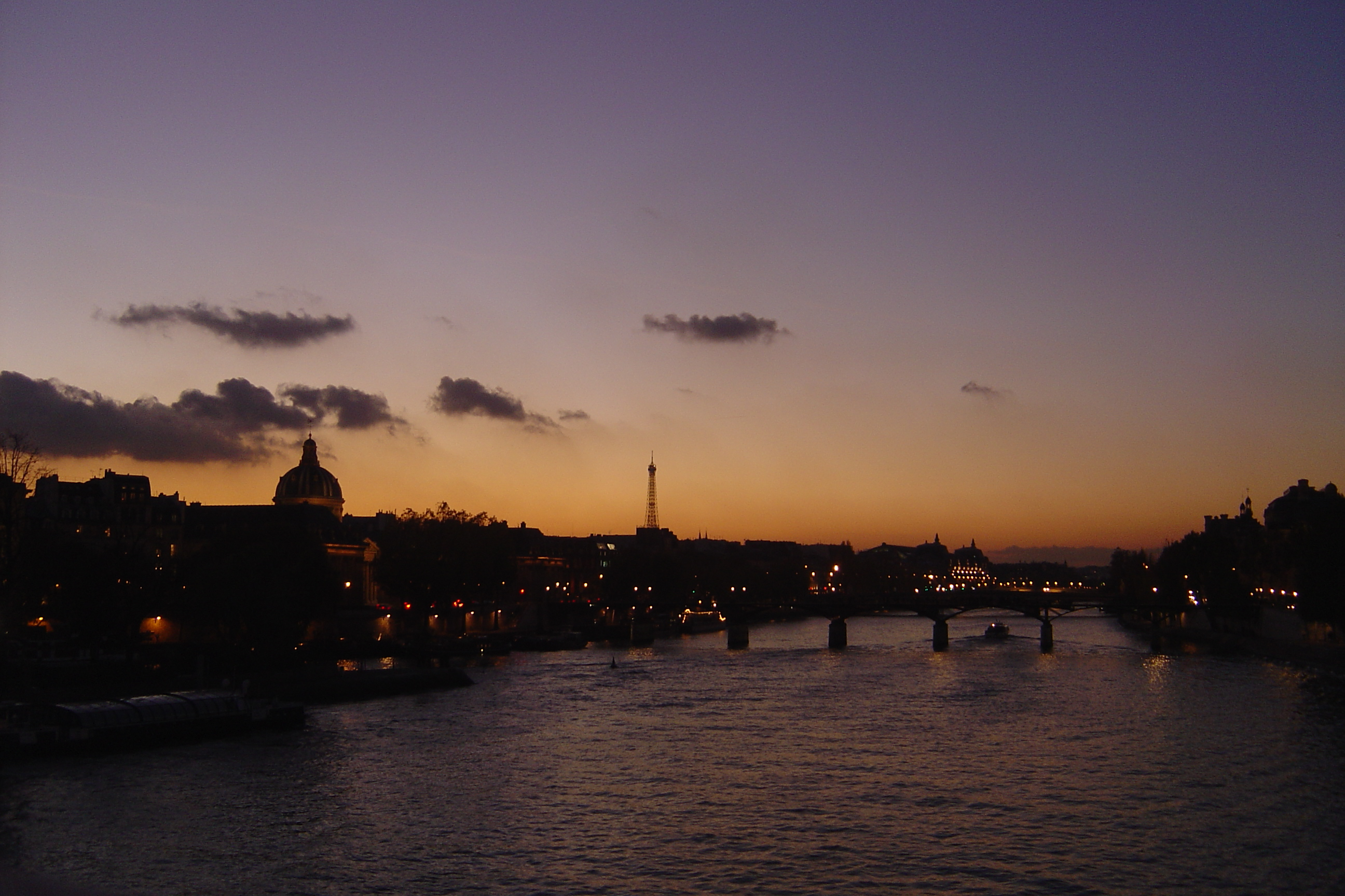 Paris by night from the Pont-Neuf (West)